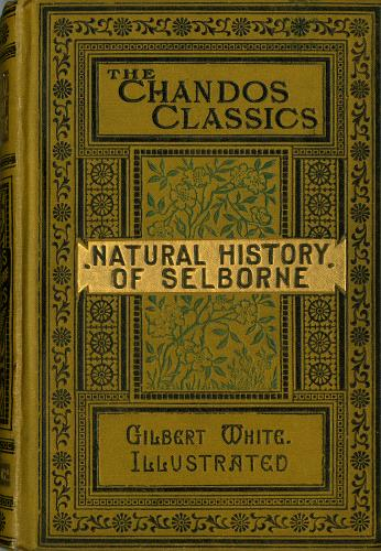 Front cover of 1879 edition